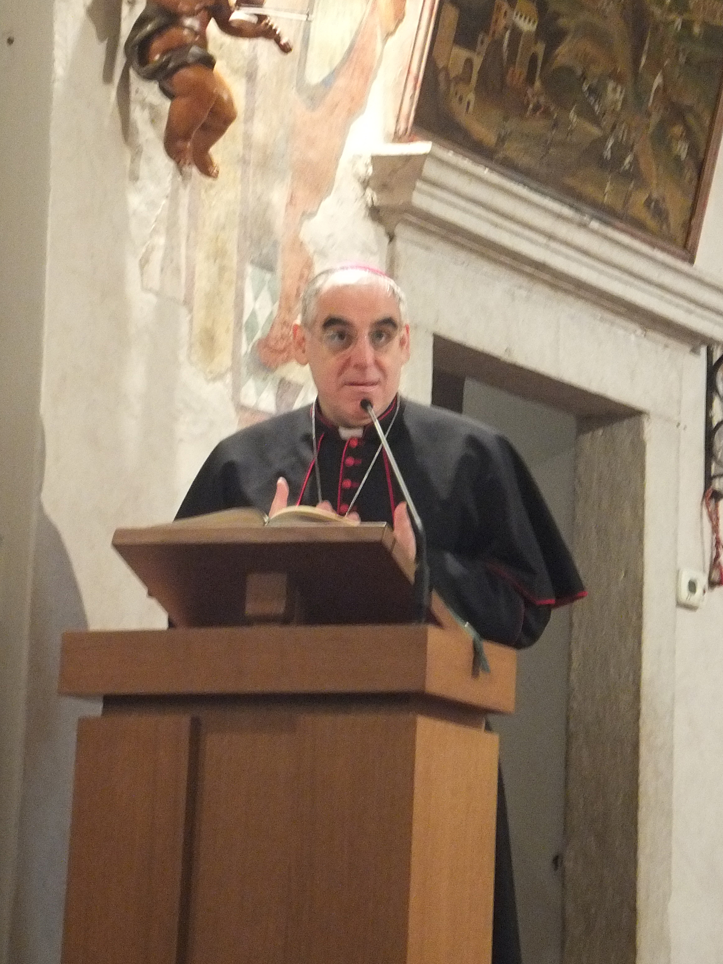 Archbishop of Trento Lauro Tisi speaking in the church of the Immaculte in Piazzo (Segonzano, TN), during a pastoral visit